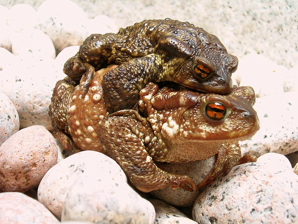 Common toads (Bufo bufo) during migration in the Portuguese nation park of Peneda-Gerês. A better version of this image was uploaded.